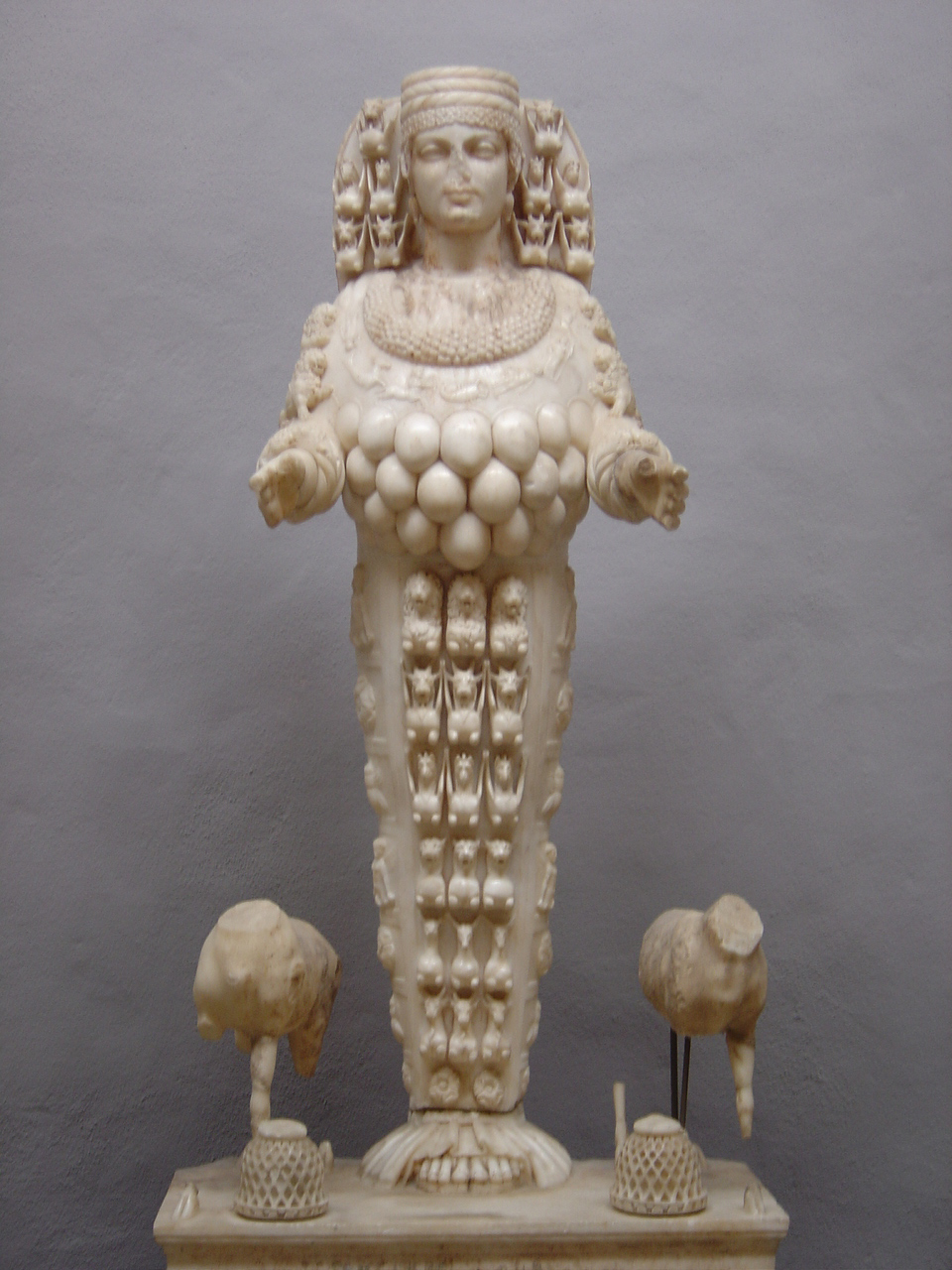 Artemis of Ephesus. 1st century CE Roman copy of the cult statue of the Temple of Ephesus. Statue in the Museum of Efes (Turkey). Selçuk satue artémis